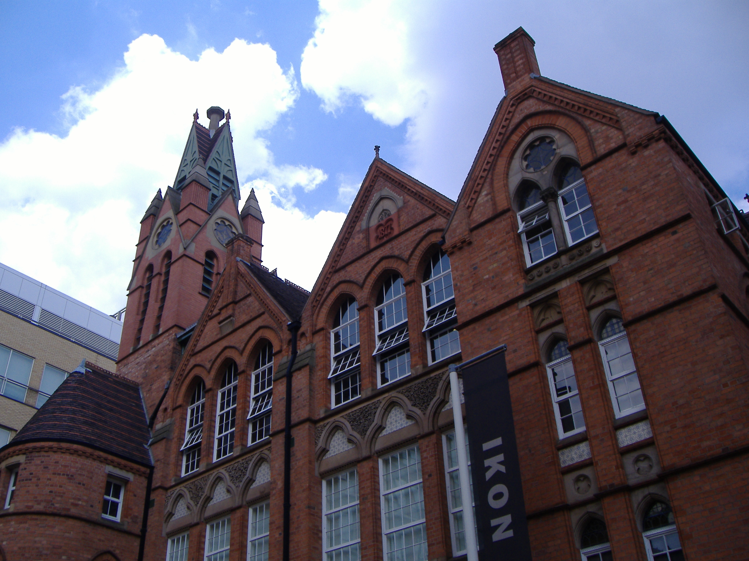 THE IKON GALLERY IN BIRMINGHAM, United Kingdom.